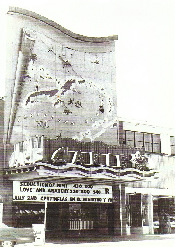 The Carib Theater, on Lincoln Road in Miami Beach, circa 1976.